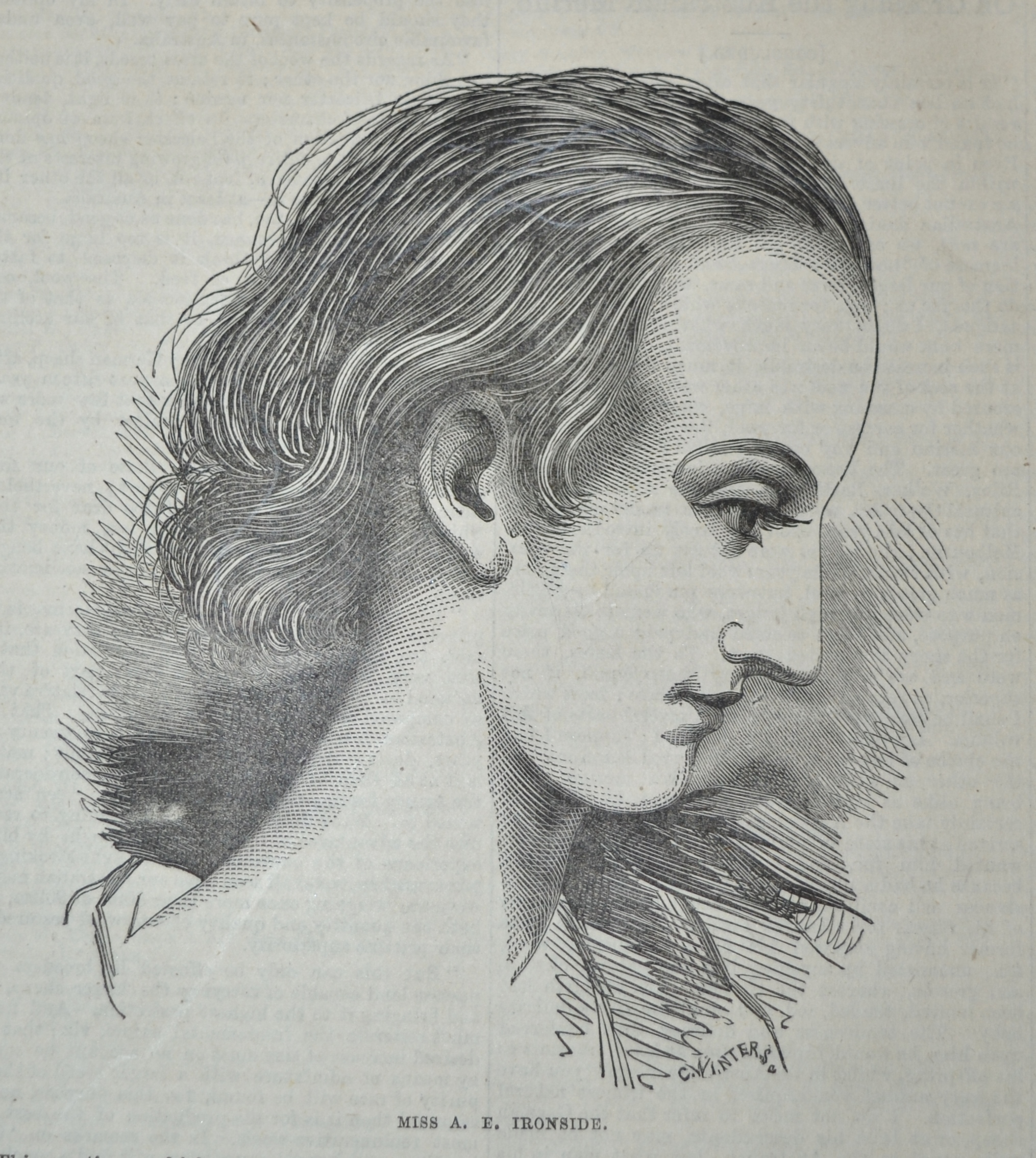 Miss Adelaide Ironside, Australian artist b. 17 November 1831 d.1867 Also known as Adelaide Eliza Scott Ironside, Adelaide Ironside was the first Australian artist to leave home to advance her career in Europe, encouraged by the influential Australian colonist, Dr. John Dunmore Lang. Her mature work earned her an audience with Pope Pius IX and the admiration of both John Ruskin and the Prince of Wales. However after her early death in Rome she was not appreciated in her home country and it took many years for her work to enter public collections. A weekly & monthly Sydney journal of local and international news and events, published from 1870 to 1919 Published by Frank & Christopher Bennett in Sydney. Annual collection in half leather binding. About 800 pages per annual volume, 46cm x 30cm.